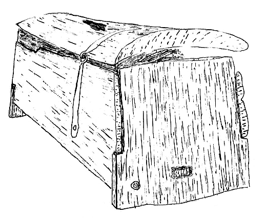 Cropped version. Part of the documentation of the Swedish Viking Age Mästermyr chest. Document no. 21592:042 from the archives of the Swedish History Museum.